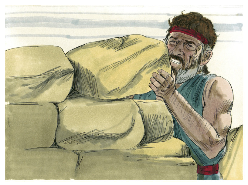 Biblical illustration of Book of Genesis Chapter 35